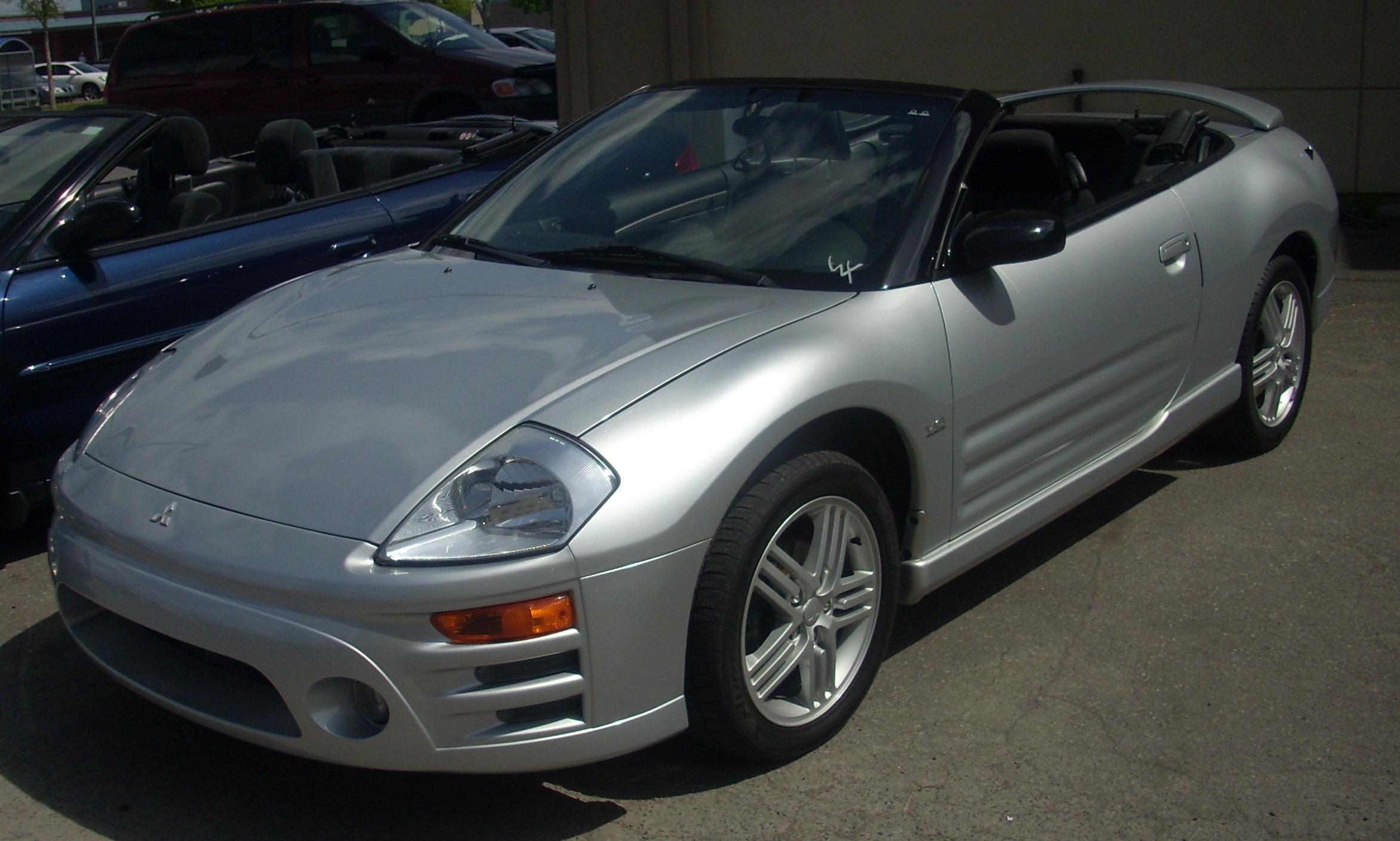 2003-2005 Mitsubishi Eclipse photographed in Laval, Quebec, Canada.